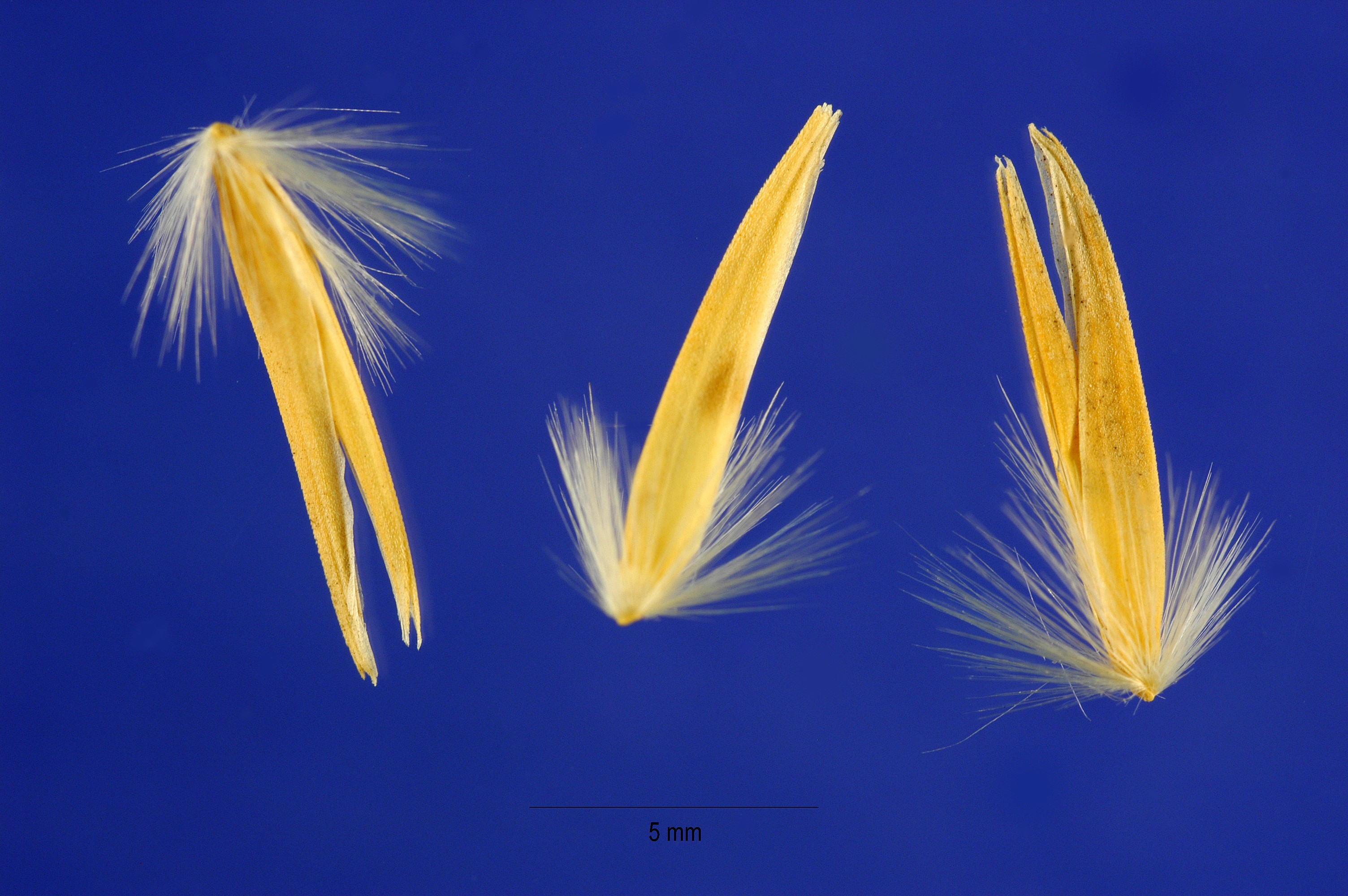 Ammophila arenaria